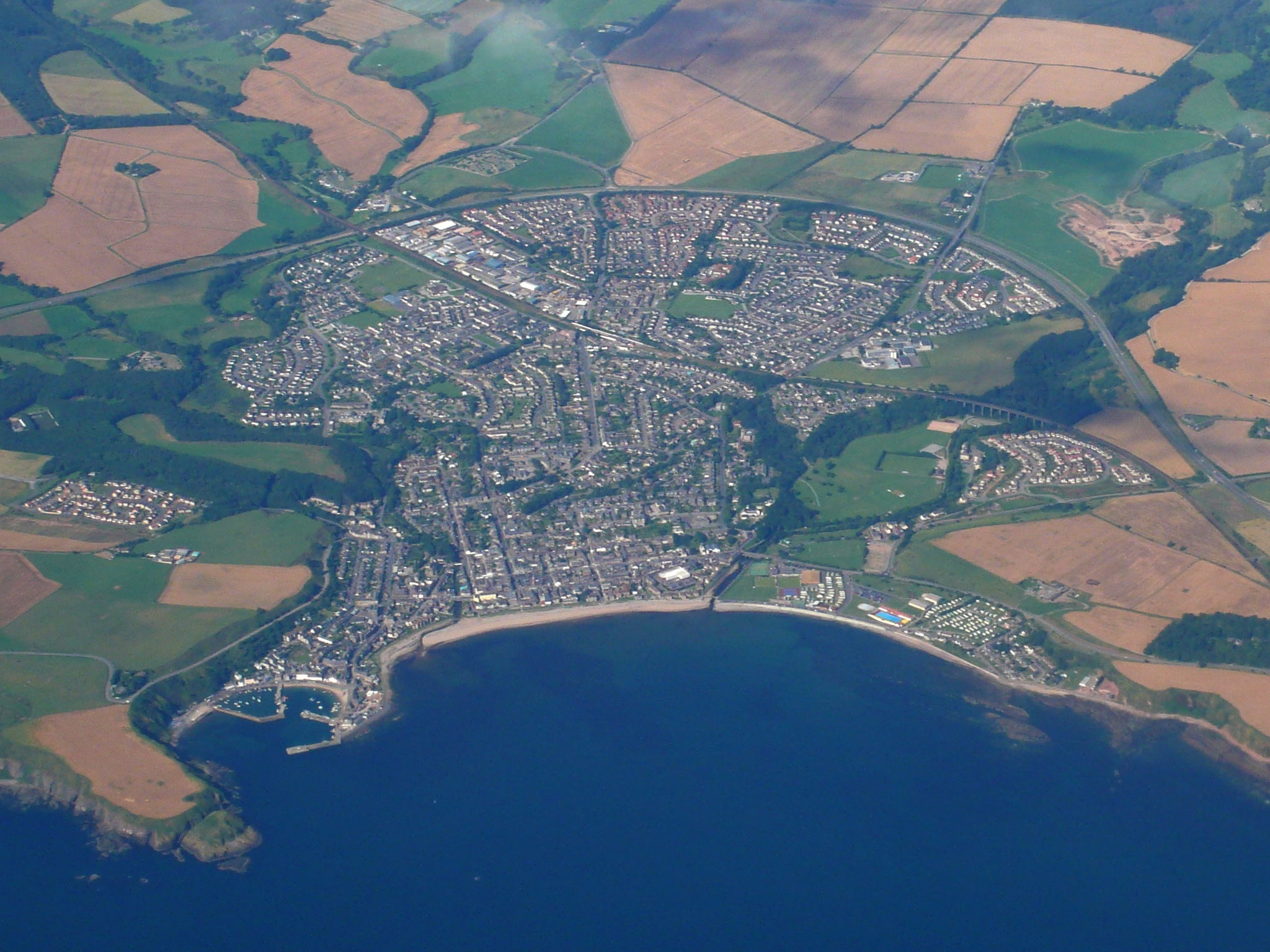 Stonehaven from the air. Taken from on board a KLM flight to Amsterdam.